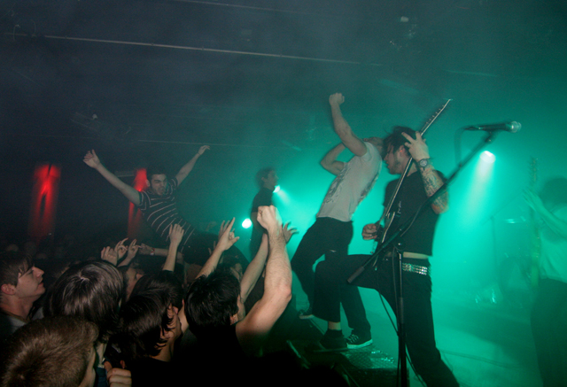 The Dillinger Escpae Plan band